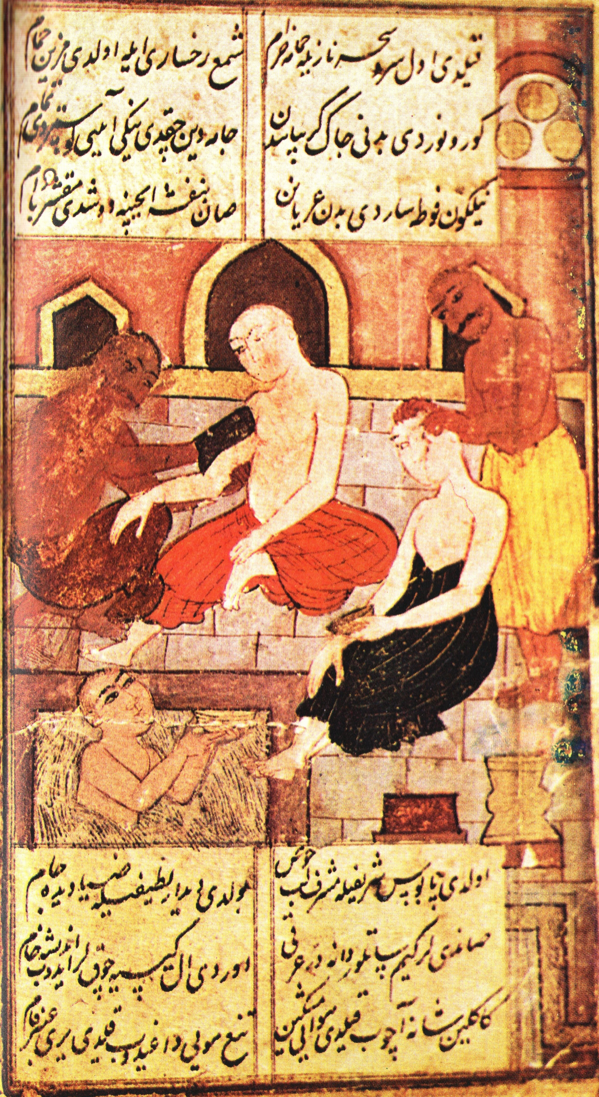 M. Fuzuli - Divan